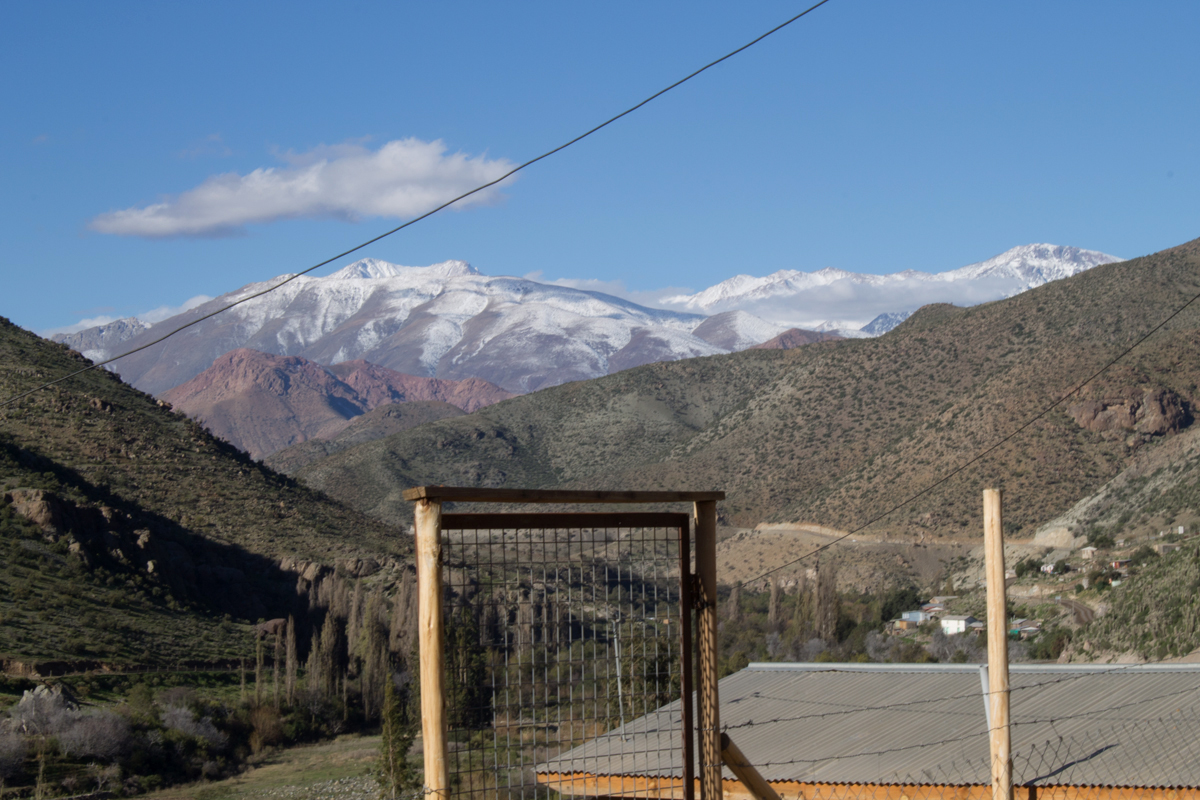 The Andean Mountains as seen from Fundina, Ovalle, Chile.